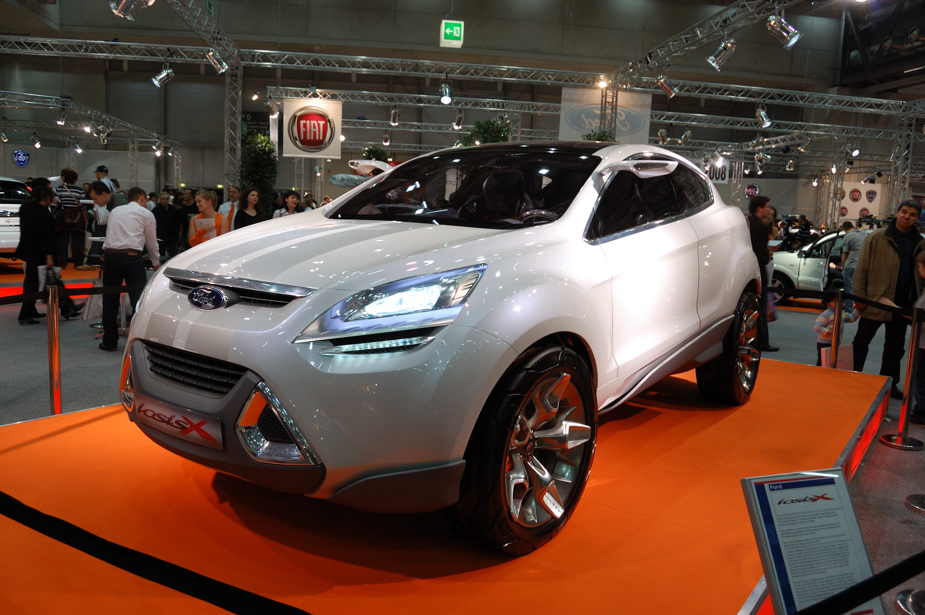 Ford iasisX